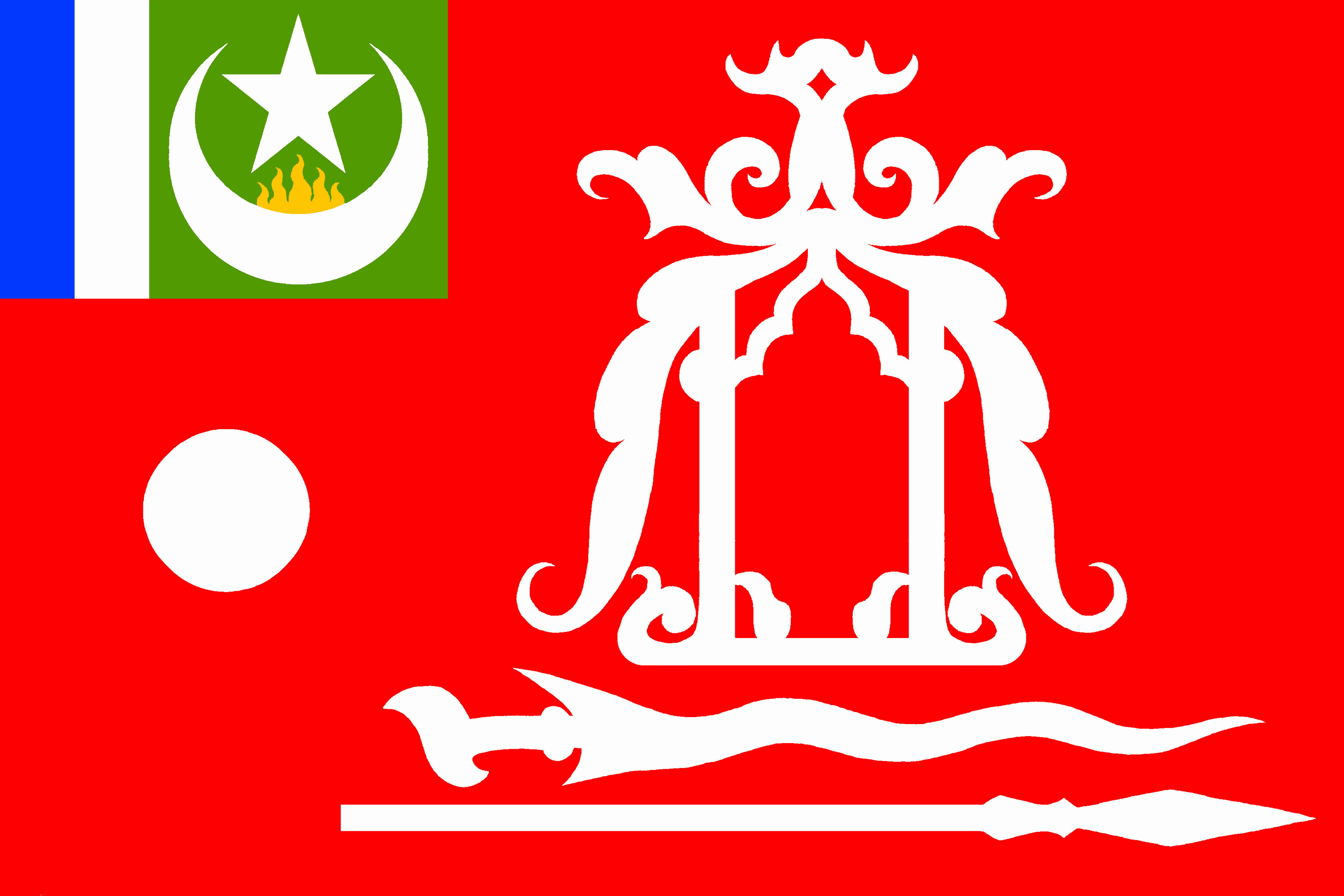 The official flag of the Royal Sulu Sultanate under H.R.H. Raja Muda Muedzul Lail Tan Kiram. Created by Mr. Michael Yurievich Medvedev